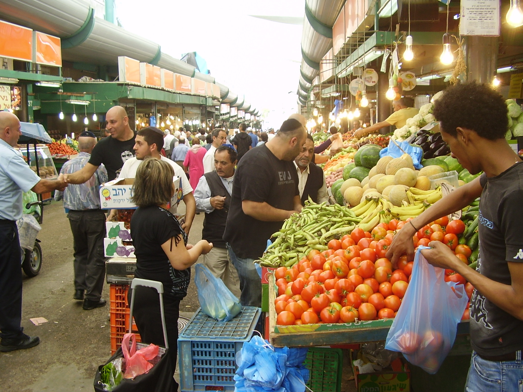 hatikva market in tel aviv